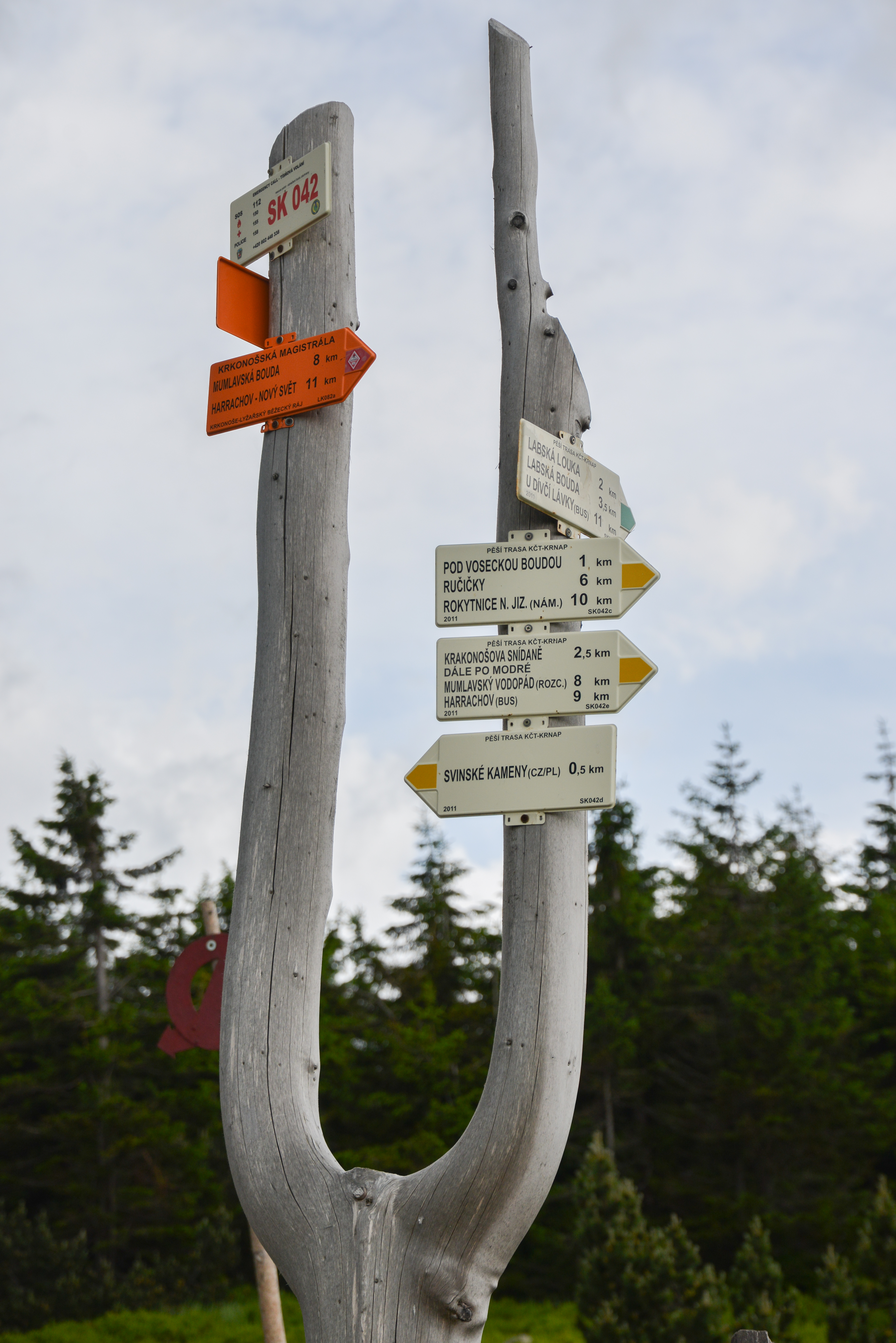 Sign next to the Vosecká bouda in Krkonoše, Czech Republic